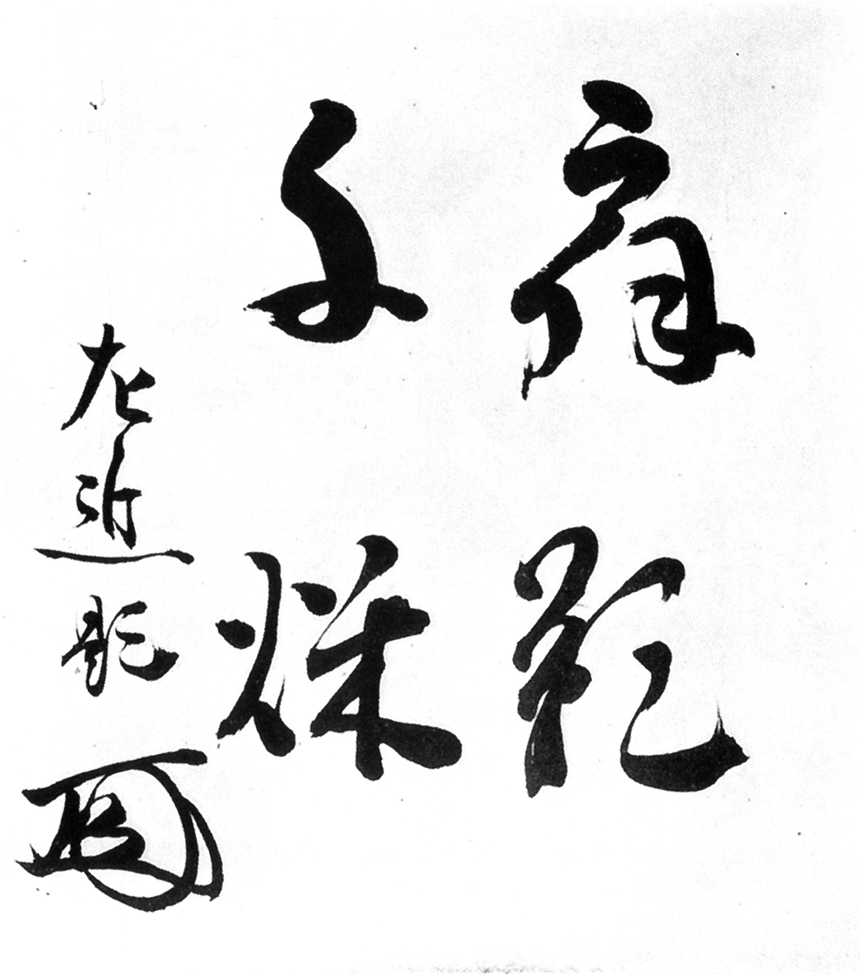 Penmanship of Japanese No Actor KANZE Sakon(1895 - 1939)